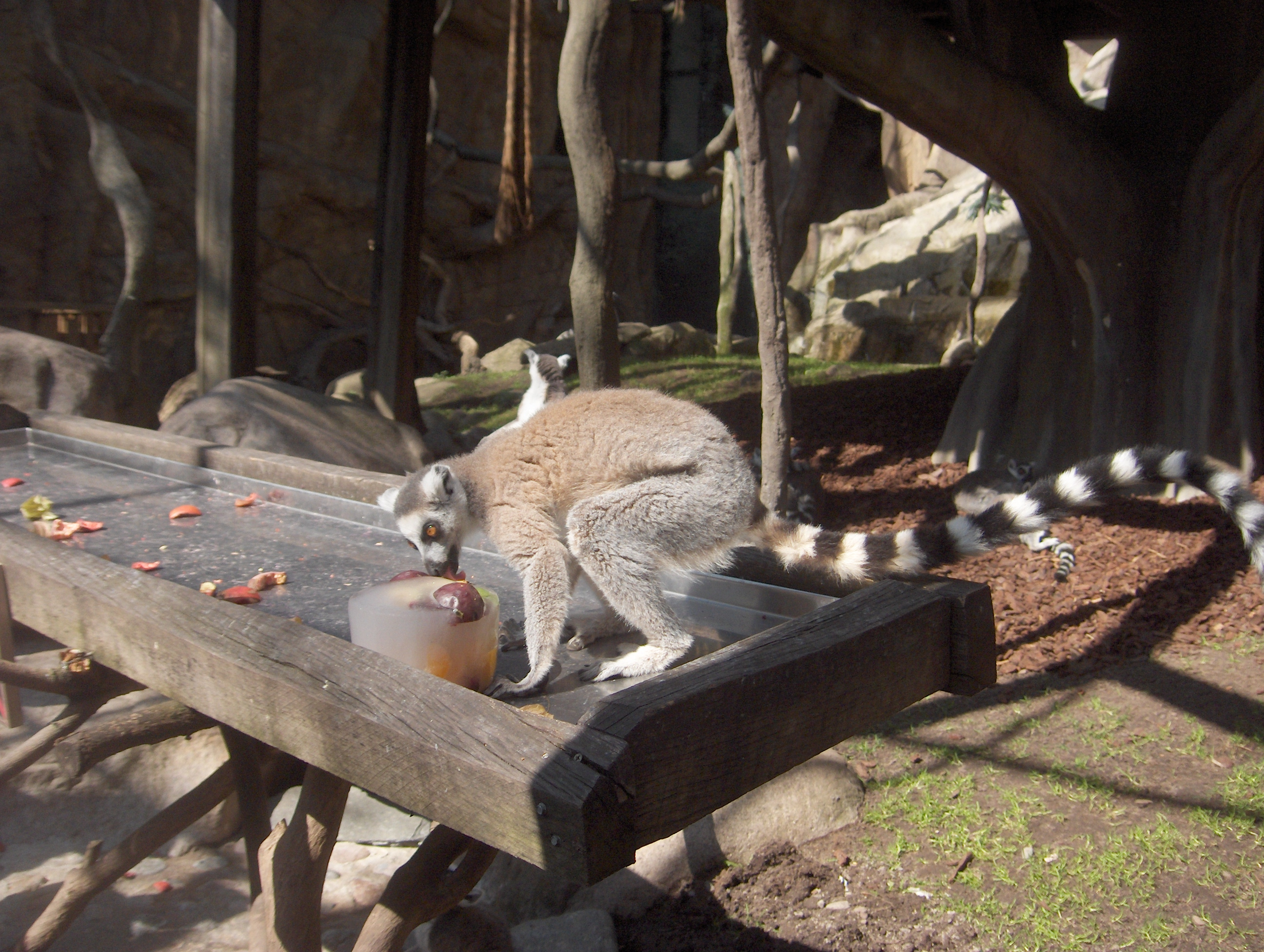 Ring-tailed Lemur (Lemur catta in Latin) (the one which is the main subject is eating) in Skansen in Stockholm. Photographed by me in spring 2008.